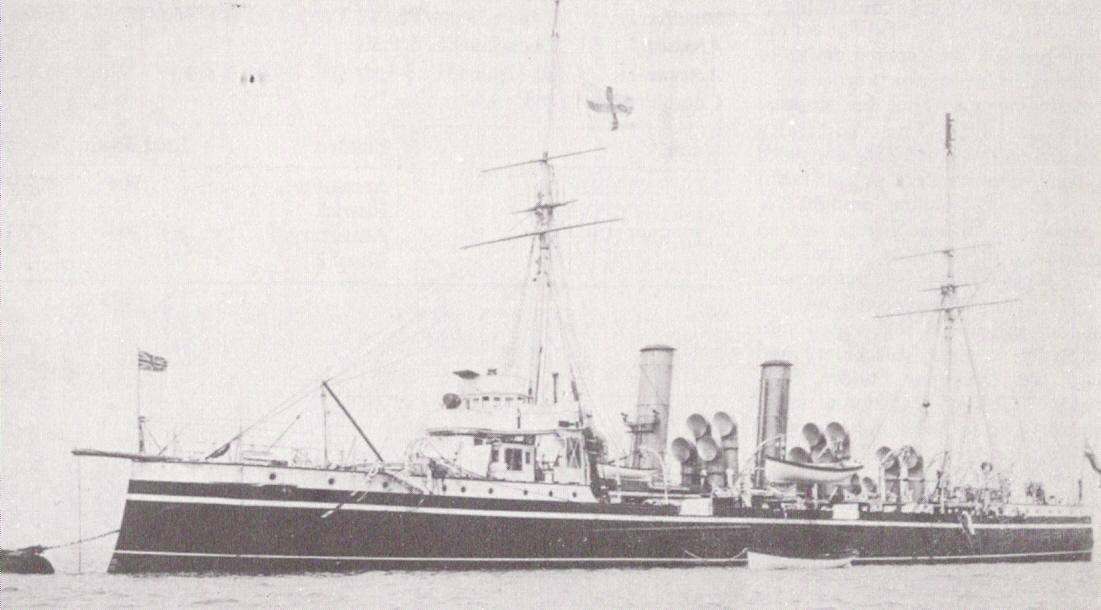 British third-class cruiser HMS Pyramus